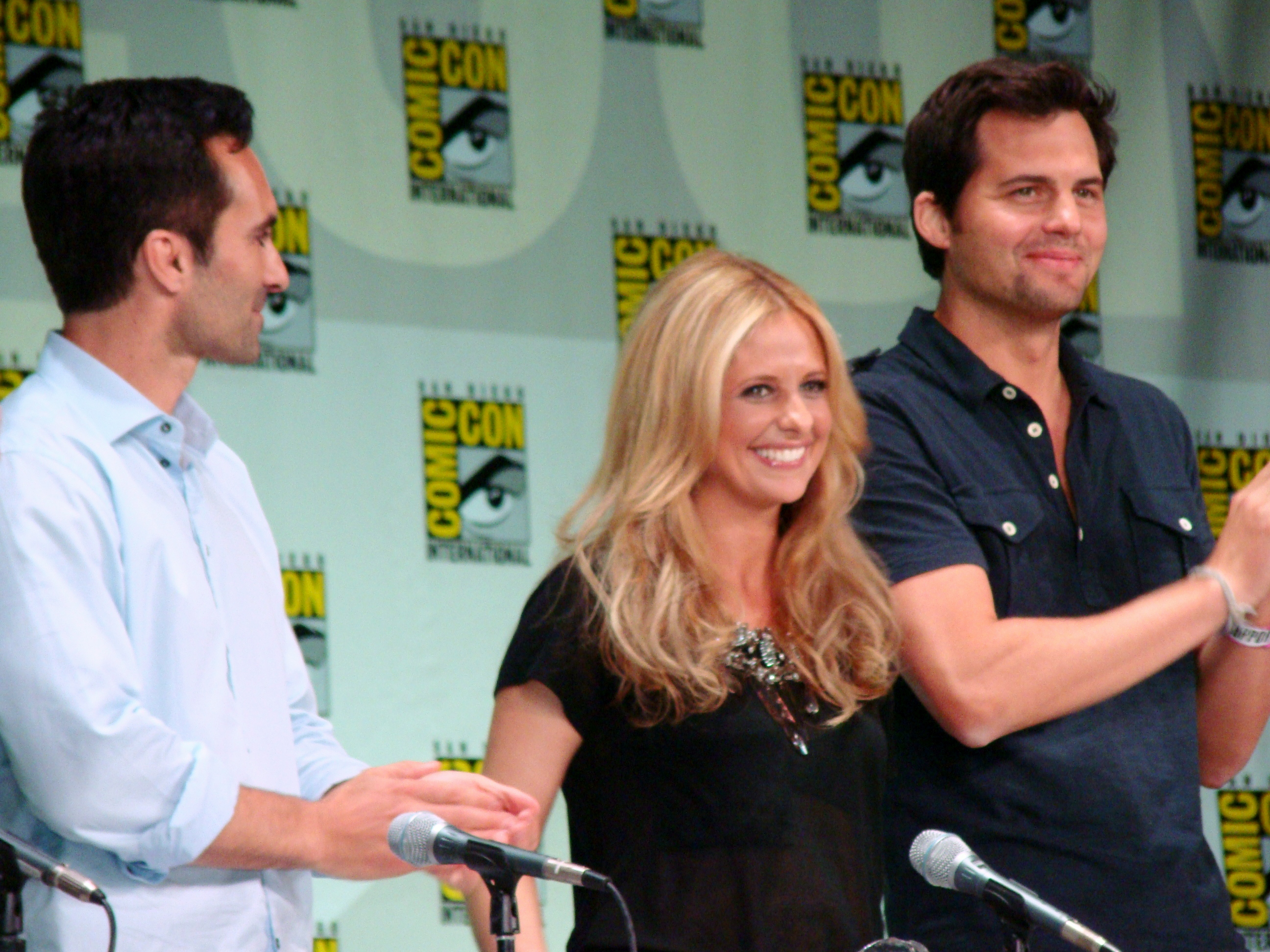 L-R: actor Nestor Carbonell, actress Sarah Michelle Gellar, and Kristoffer Polaha at the 2011 San Diego Comic Con International